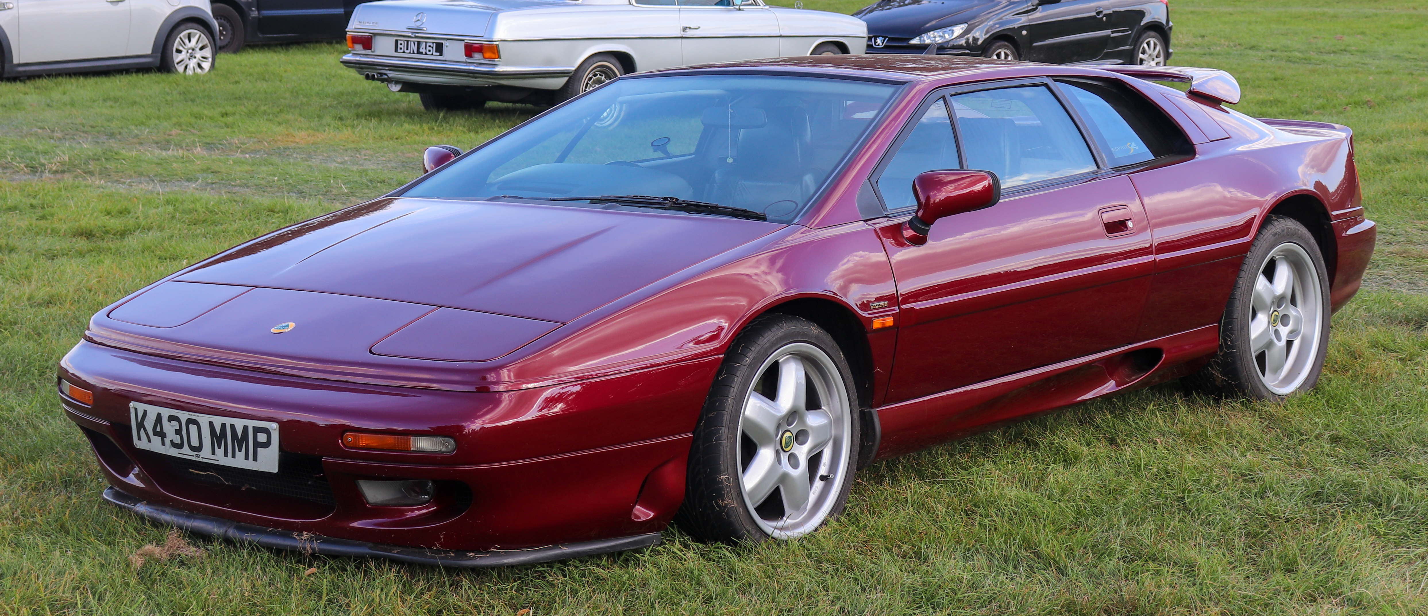 1993 Lotus Esprit Turbo S4 2.2 Front Taken at the Salon Privé Concours d'Elegance Classic Car Motor Show 2019, Blenheim Palace